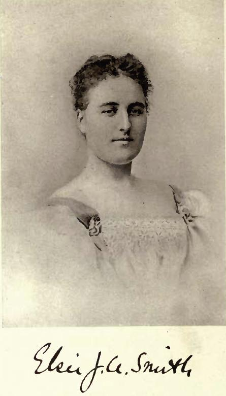 Elsie Smith by William James Topley